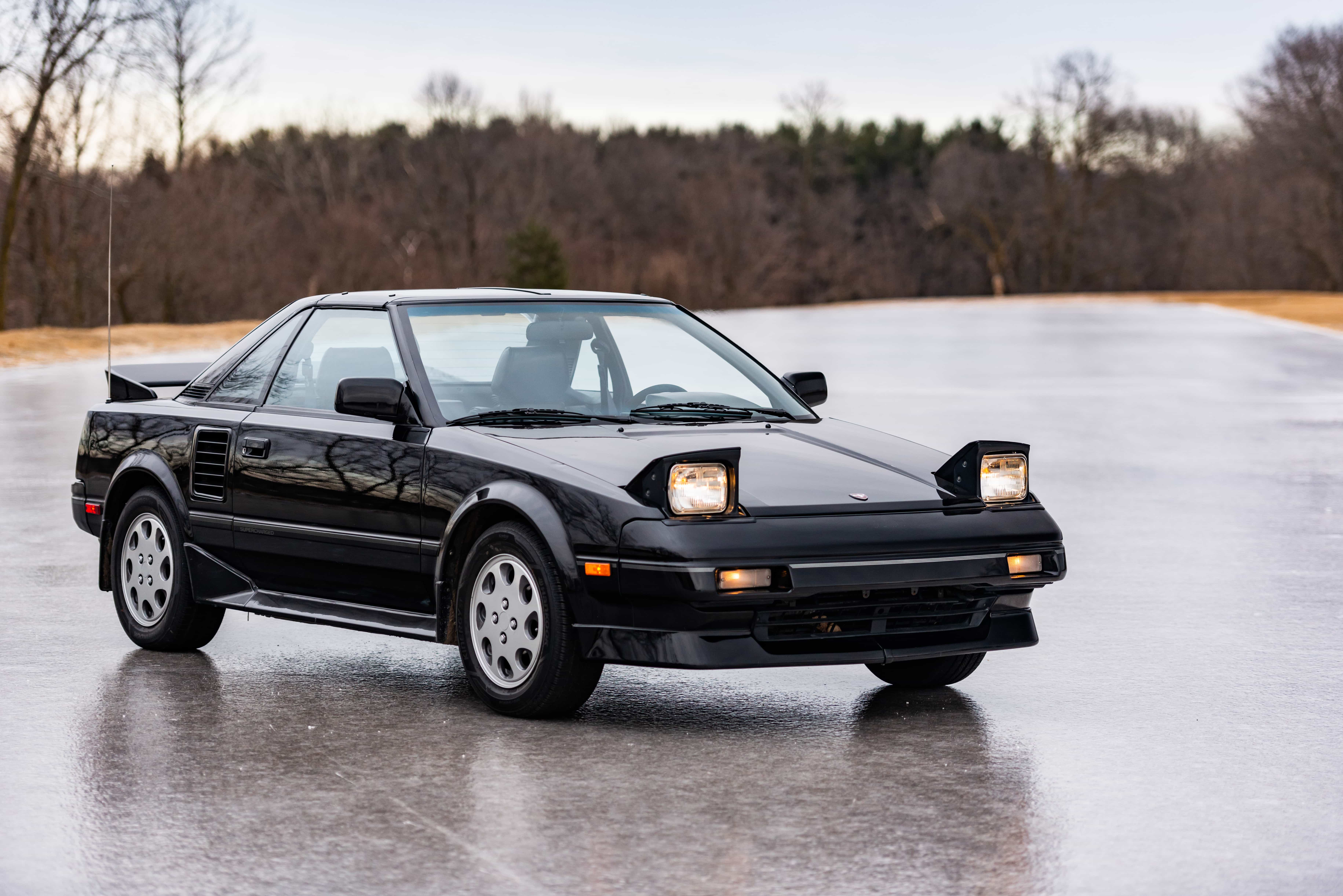 1989 North American Variant